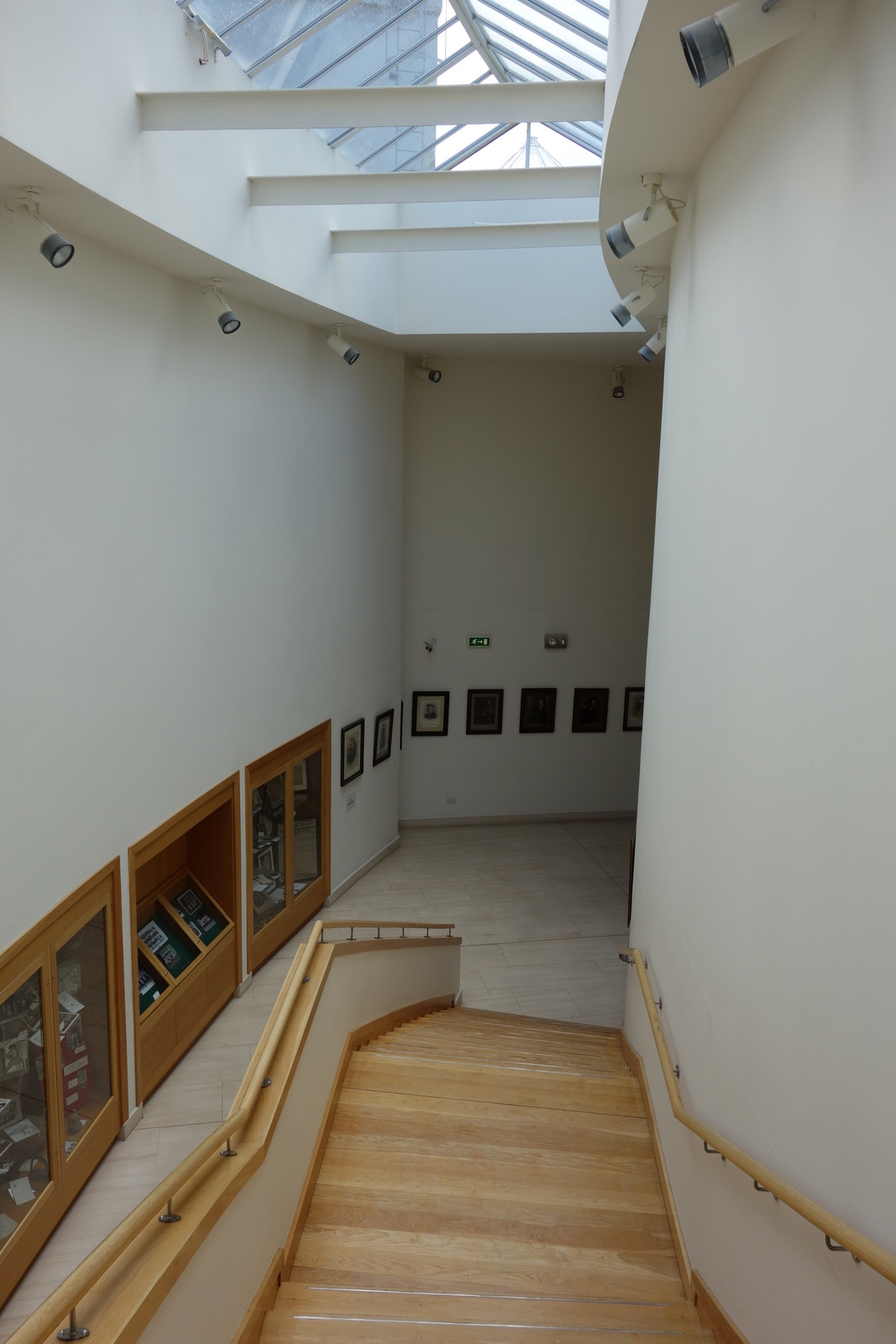 Clongowes Wood College is a voluntary secondary boarding school for boys, located near Clane in County Kildare, Ireland. Founded by the Society of Jesus (Jesuits) in 1814, it is one of Ireland's oldest Catholic schools, and featured prominently in James Joyce's semi-autobiographical novel A Portrait of the Artist as a Young Man. One of five Jesuit schools in Ireland, it had 450 students in 2011/2012 when the fees were €16800 per annum